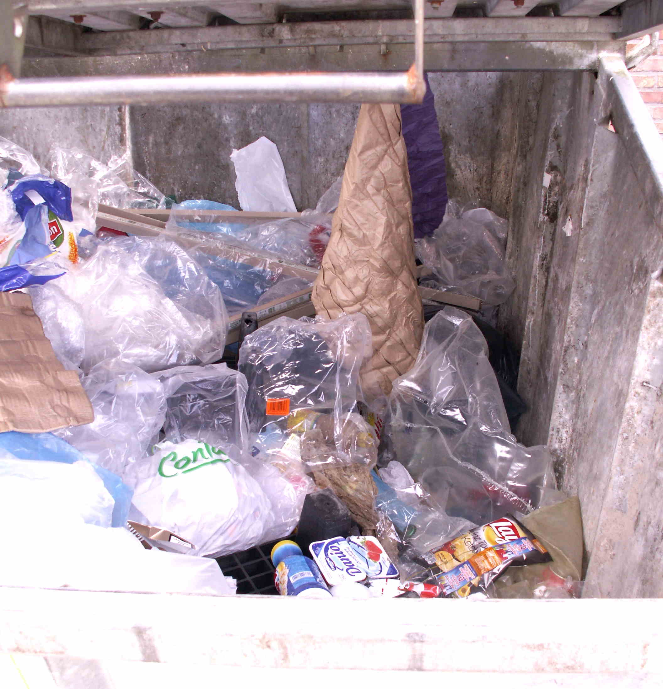 The inside of a supermarket dumpster, located in Aalst, Belgium. As clealy visible, many food is discarded without having been used. Most food was 2 months past its expiration date (other food less than this).